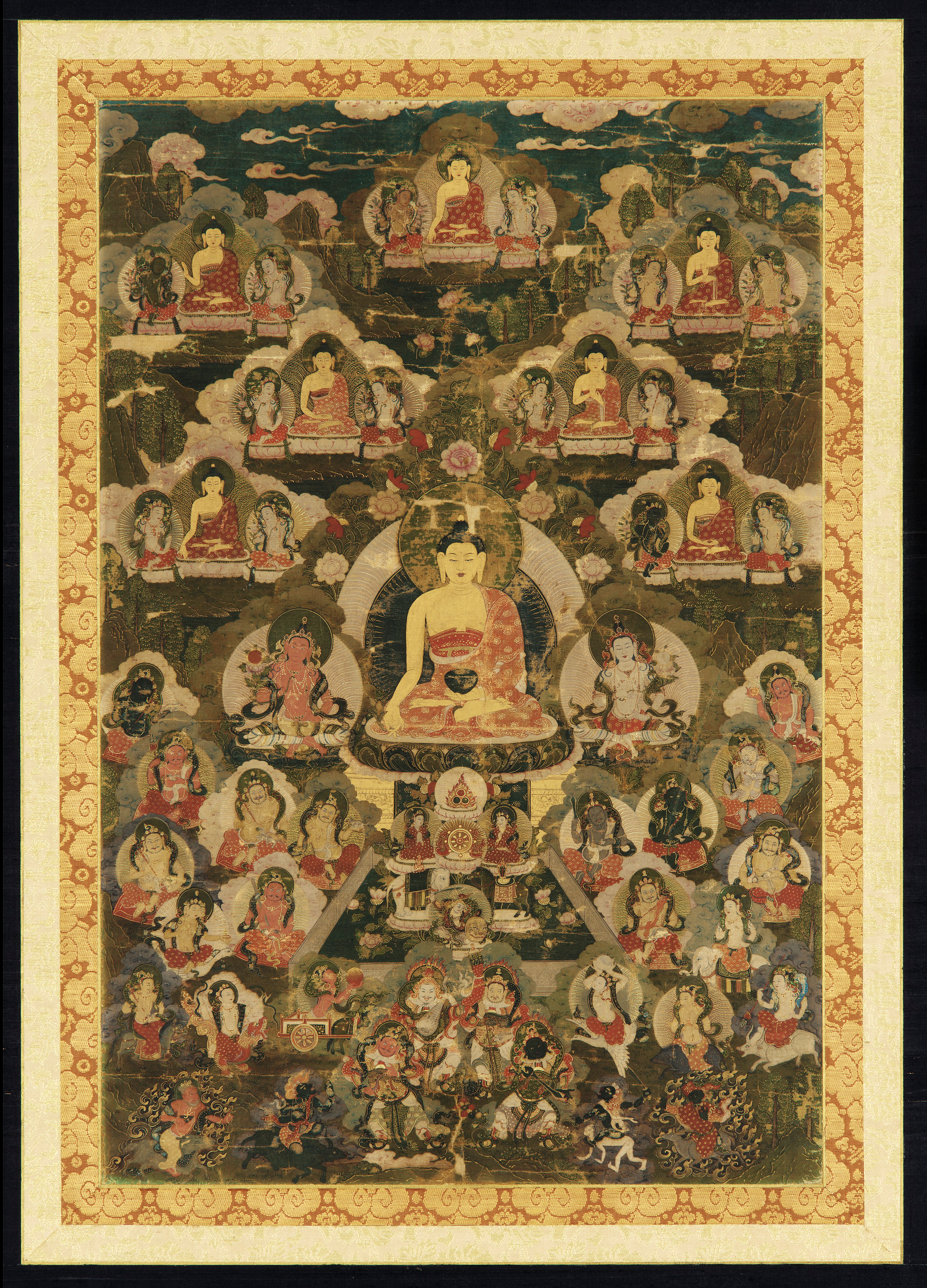 The Eight Medicine Buddhas. Opaque watercolor and gold on canvas; H x W: 61.5 x 41 cm (24 3/16 x 16 1/8 in). Freer Gallery of Art and Arthur M. Sackler Gallery. Accession Number: F1903.116.